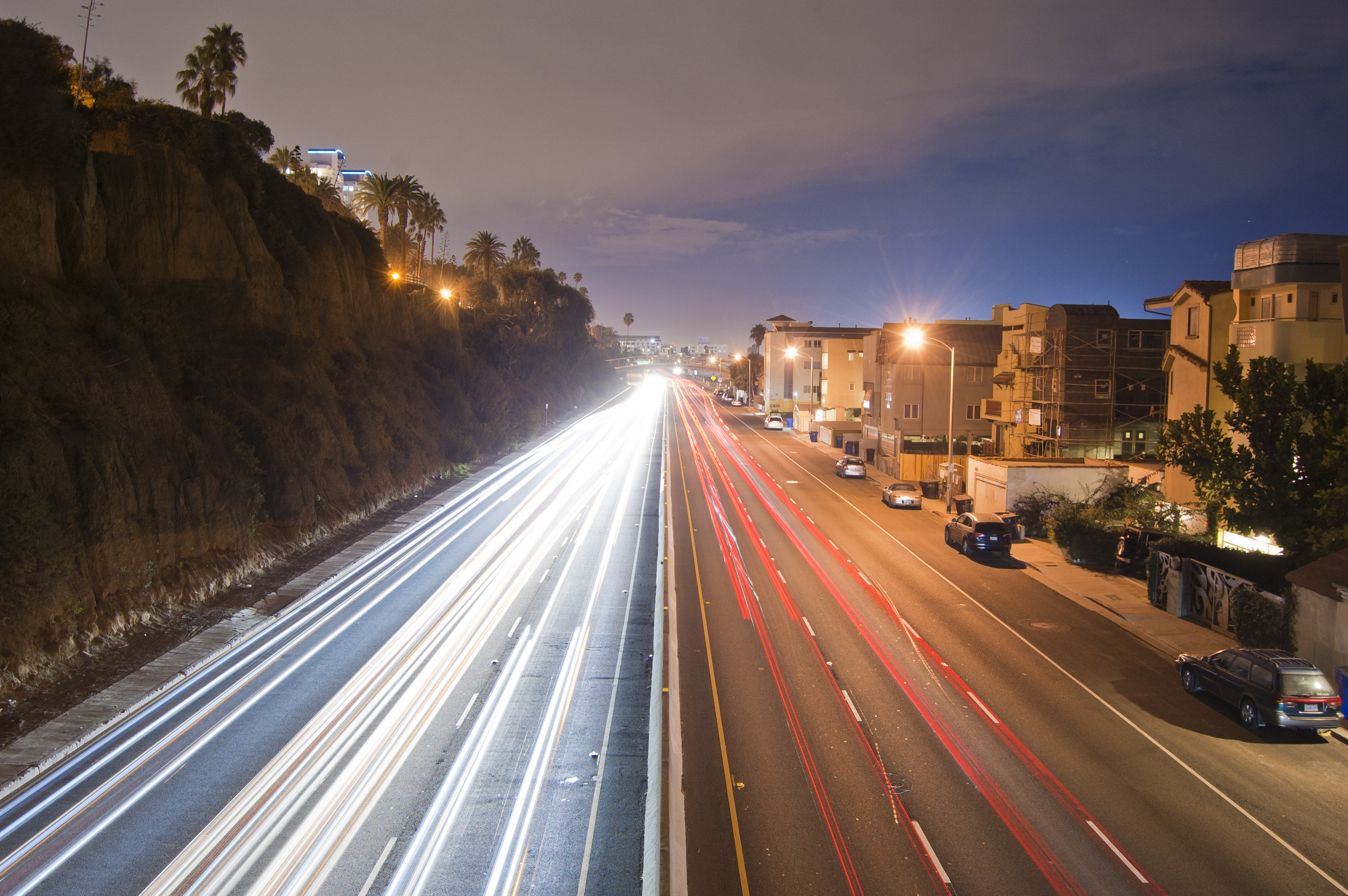 Pacific Coast Highway—California State Route 1 — shot from atop a pedestrian bridge in Santa Monica.